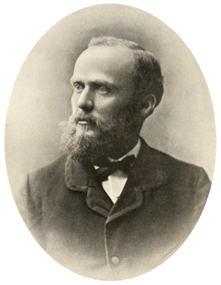 Otto Stoll (1849–1922), Swiss physician, linguist and ethnologist